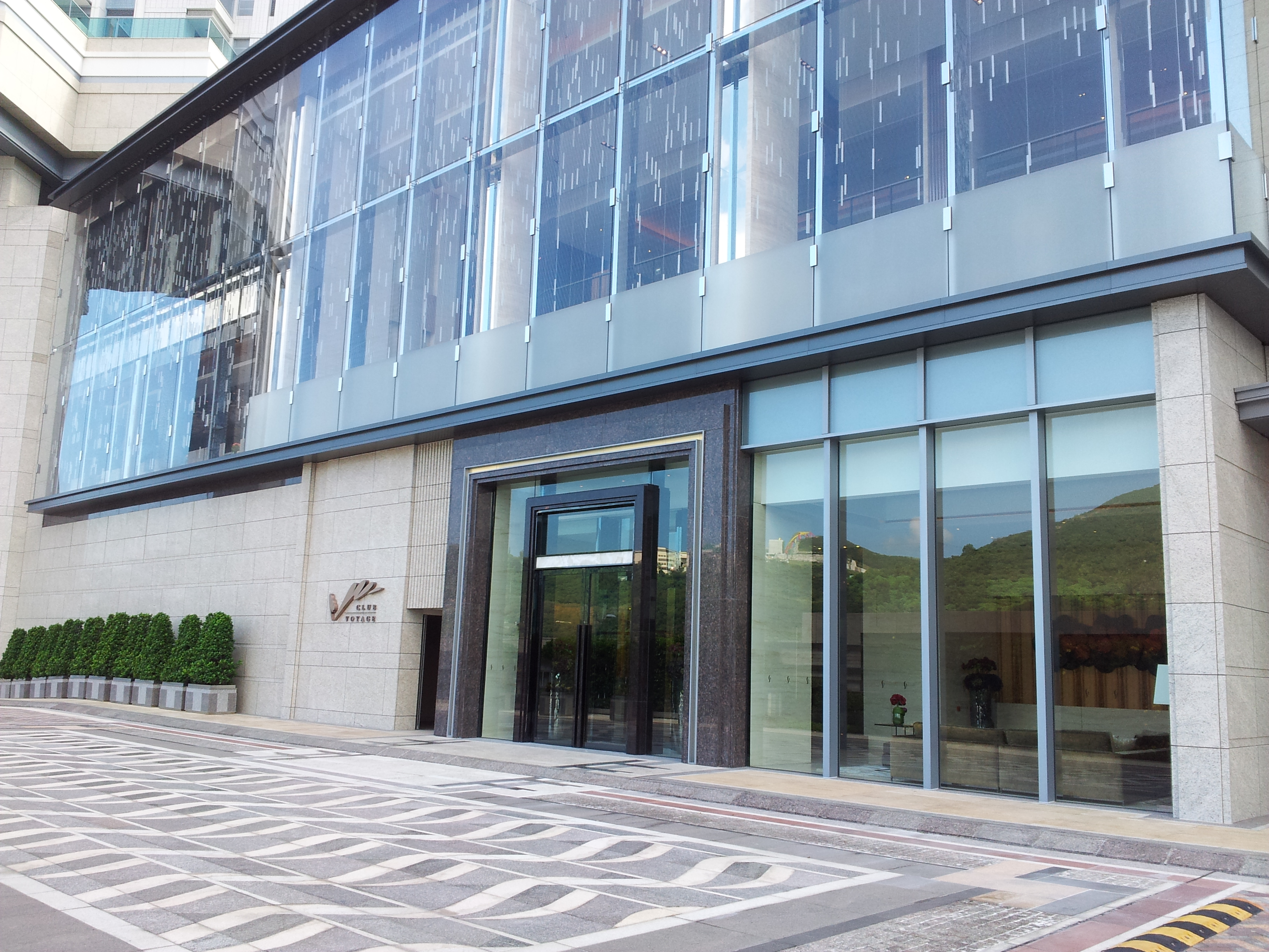 Club Voyage of Larvotto